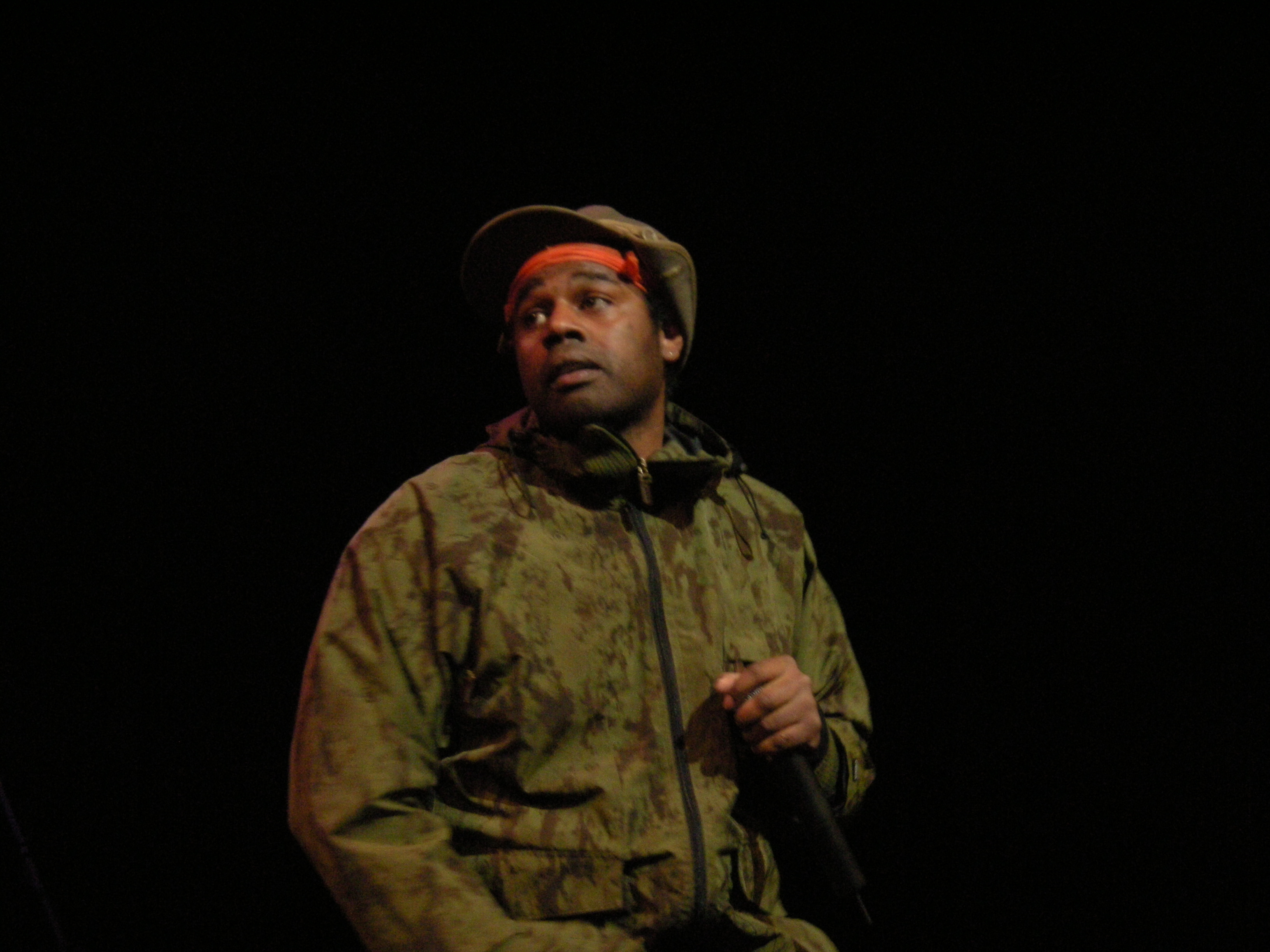 Tilson of The Saturday Knights performing with Blue Scholars at the launch of "Seattle, City of Music", Paramount Theater, Seattle, Washington.